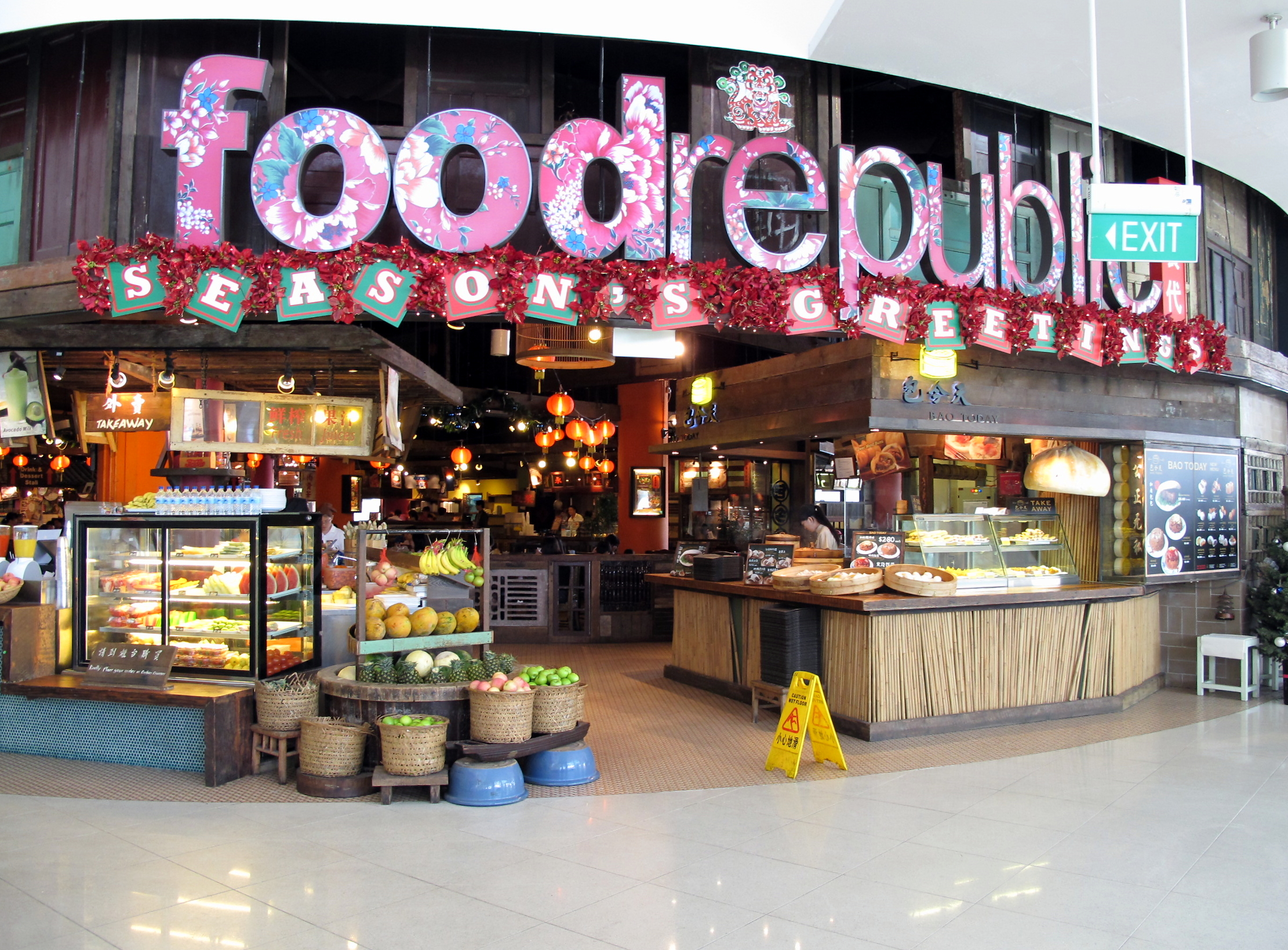 Vivo City Food Republic